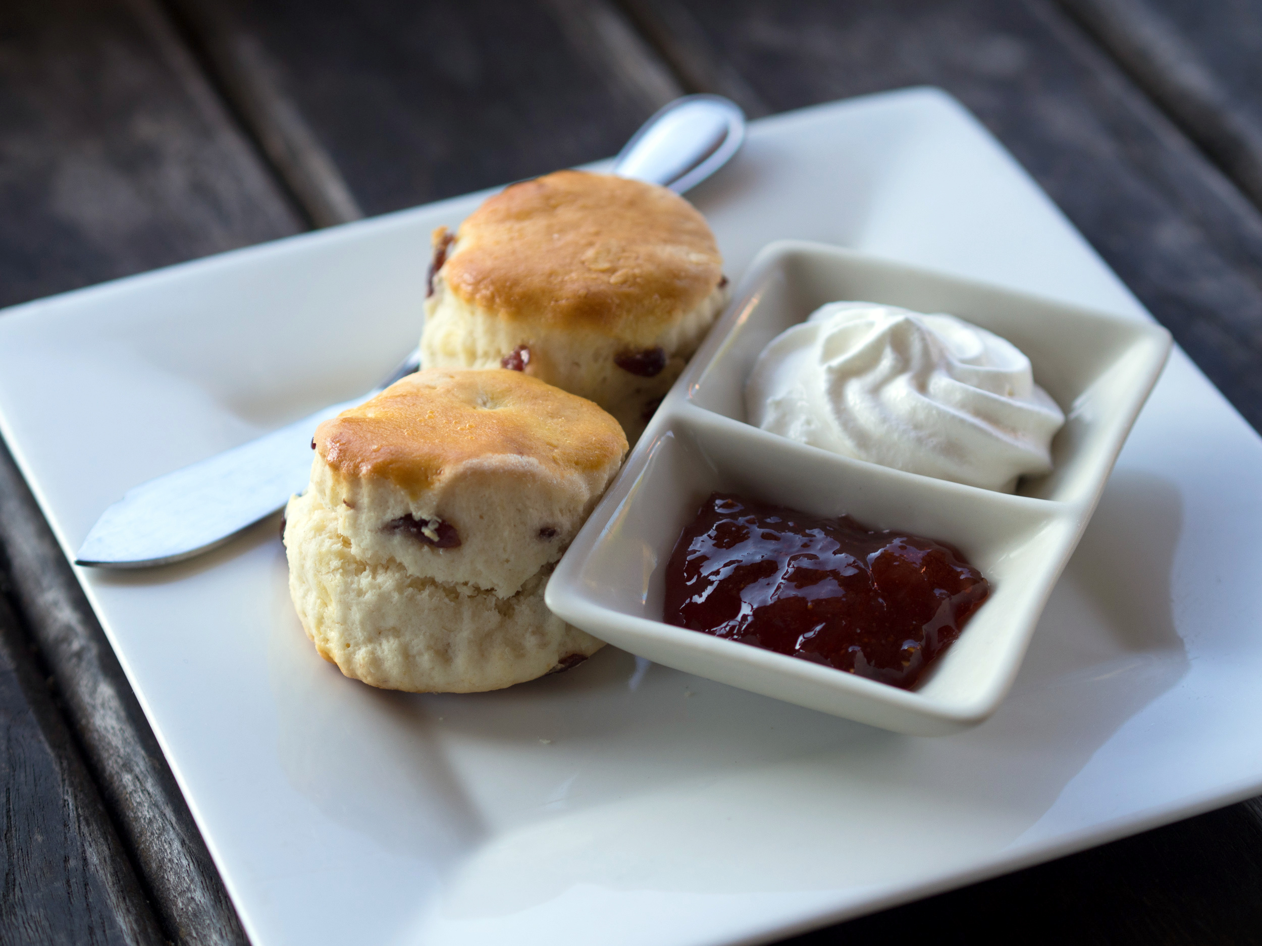 Scones with cream and jam, served in the village of Mae Salong (Santikhiri), a former Kuomintang village in the mountains of Chiang Rai province, in northern Thailand.